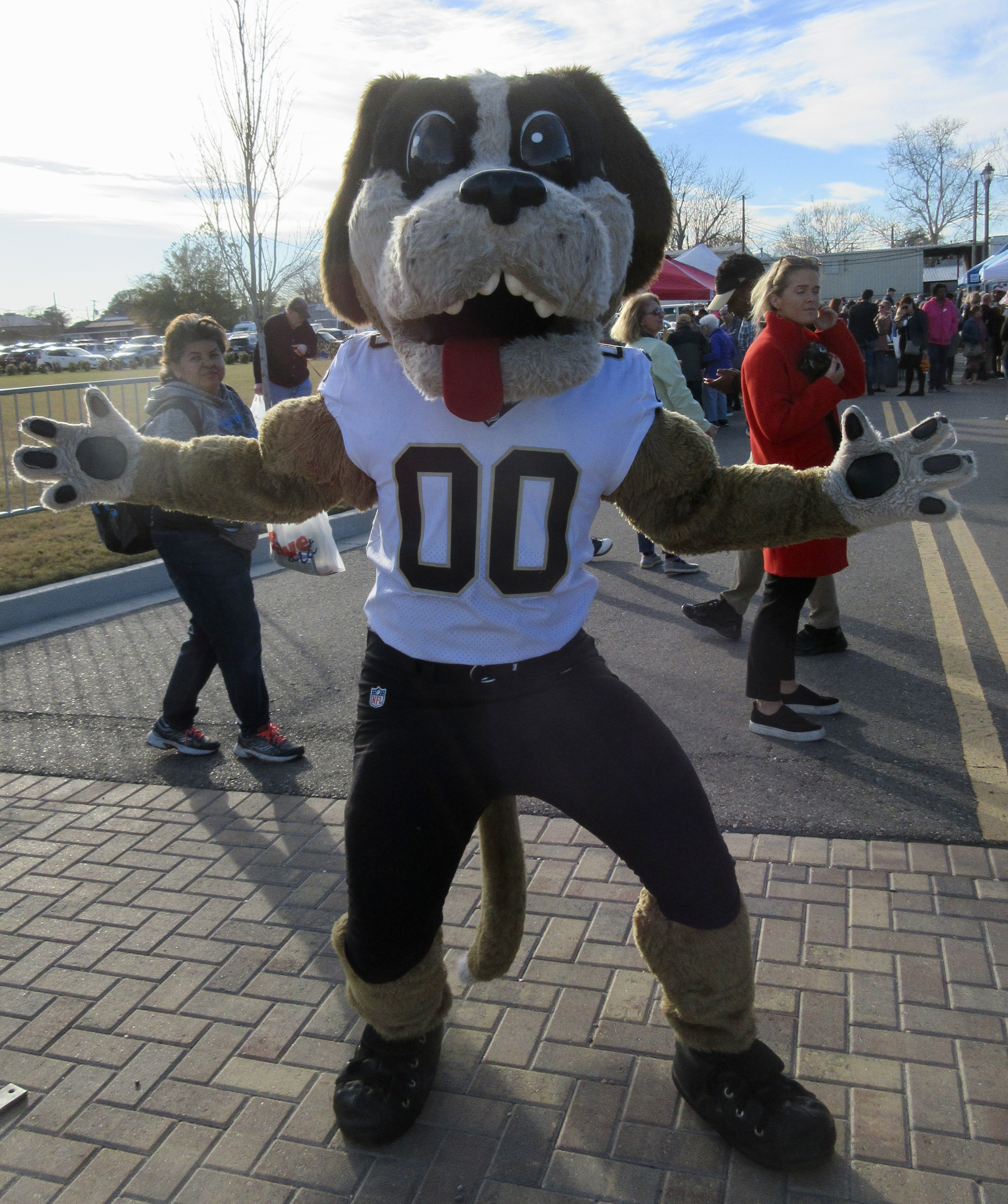 "Gumbo" mascot of New Orleans Saints football team.